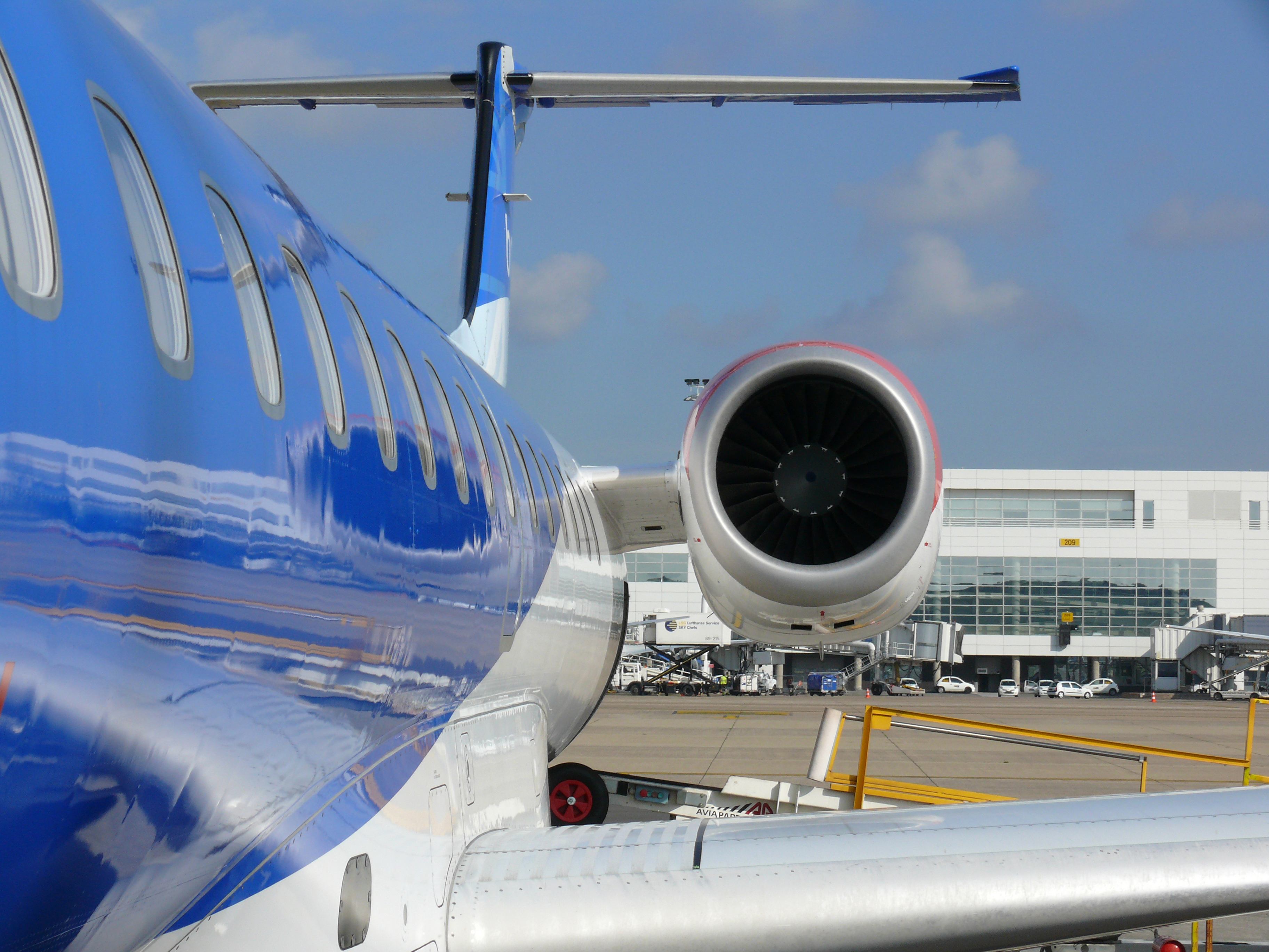 Motor (Rolls Royce Allison AE 3007/A1/1) of BMI Regional G-RJXH Embraer EMB145EP (ERJ145) at Zaventem Brussels Airport.